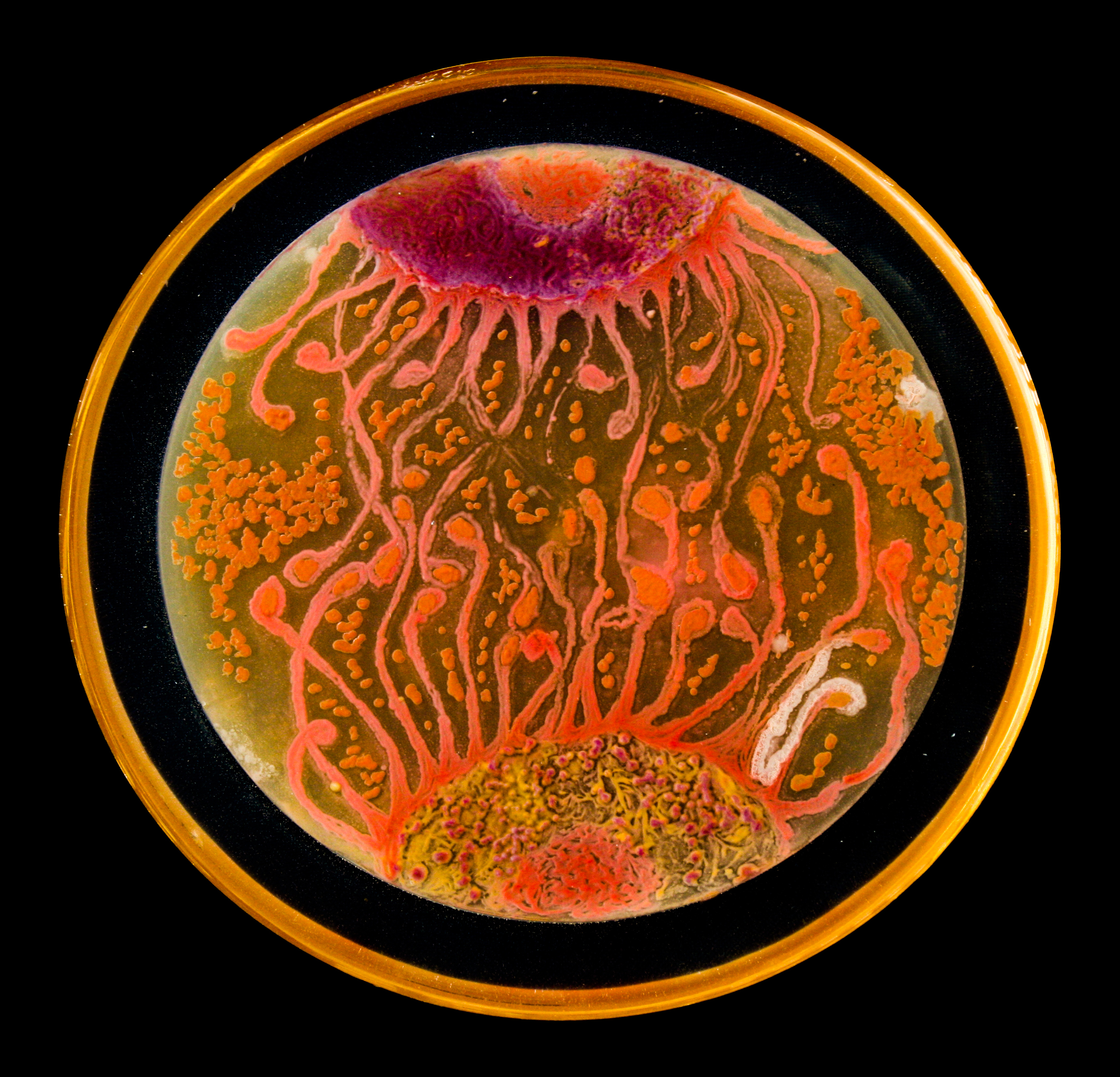 "Cell to Cell" by microbiologists Mehmet Berkmen and Maria Peñil from Massachusetts won the "People's Choice" award in the American Society of Microbiology's 2015 Agar Art Contest.